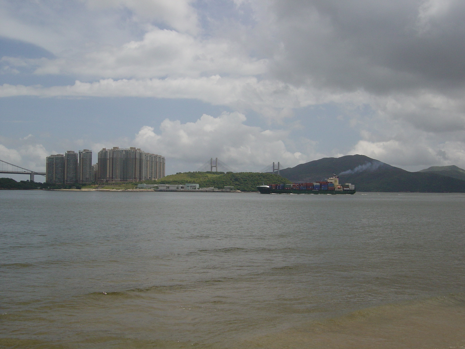 Ma Wan, New Territories, Hong Kong